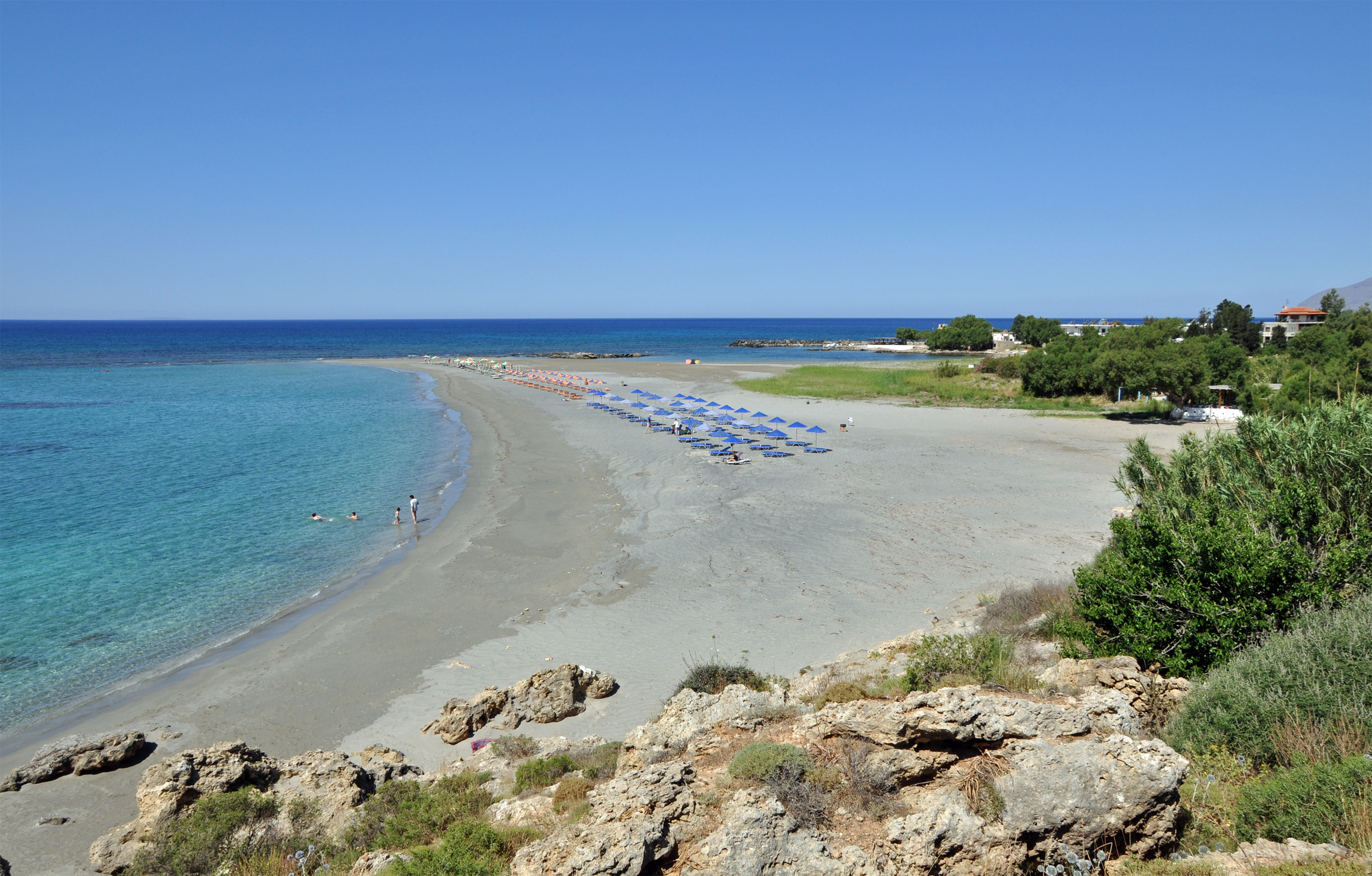 Frangokastello (Crete, Greece): the beach